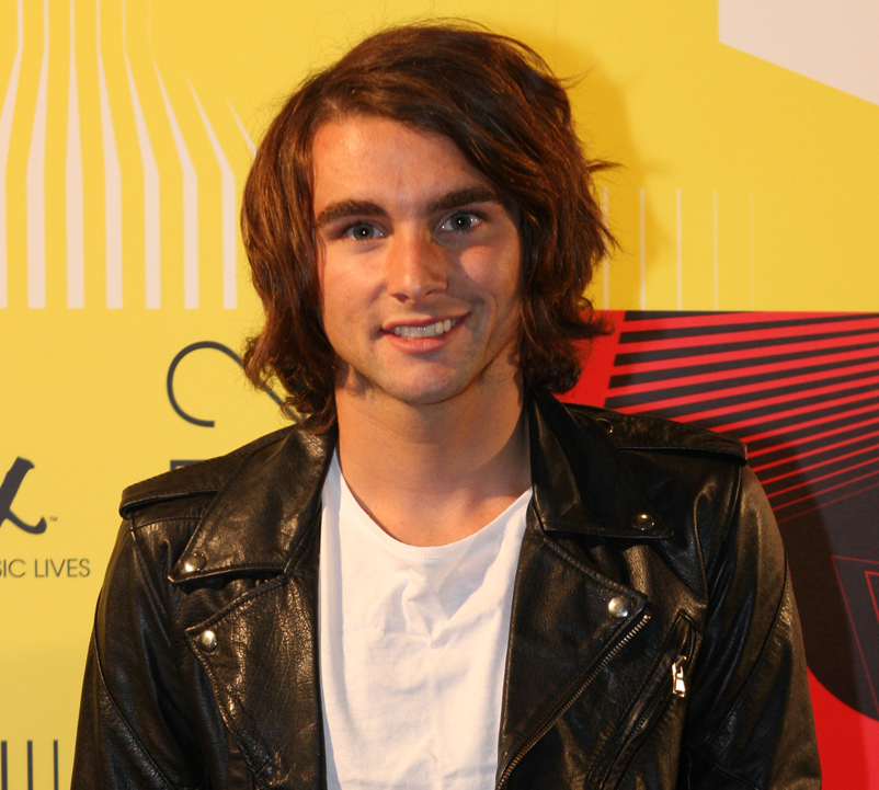 Shaun Diviney attending the 2012 APRA Music Awards.